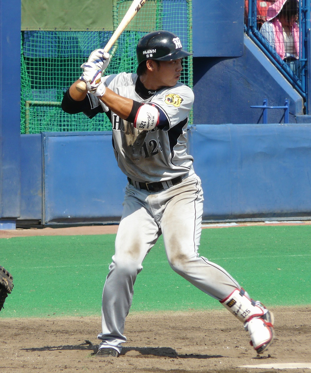 HT-Kosei-Fujii20110908